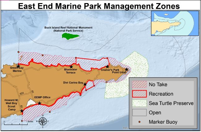 Text will provide additional information and interpretation of the legend.